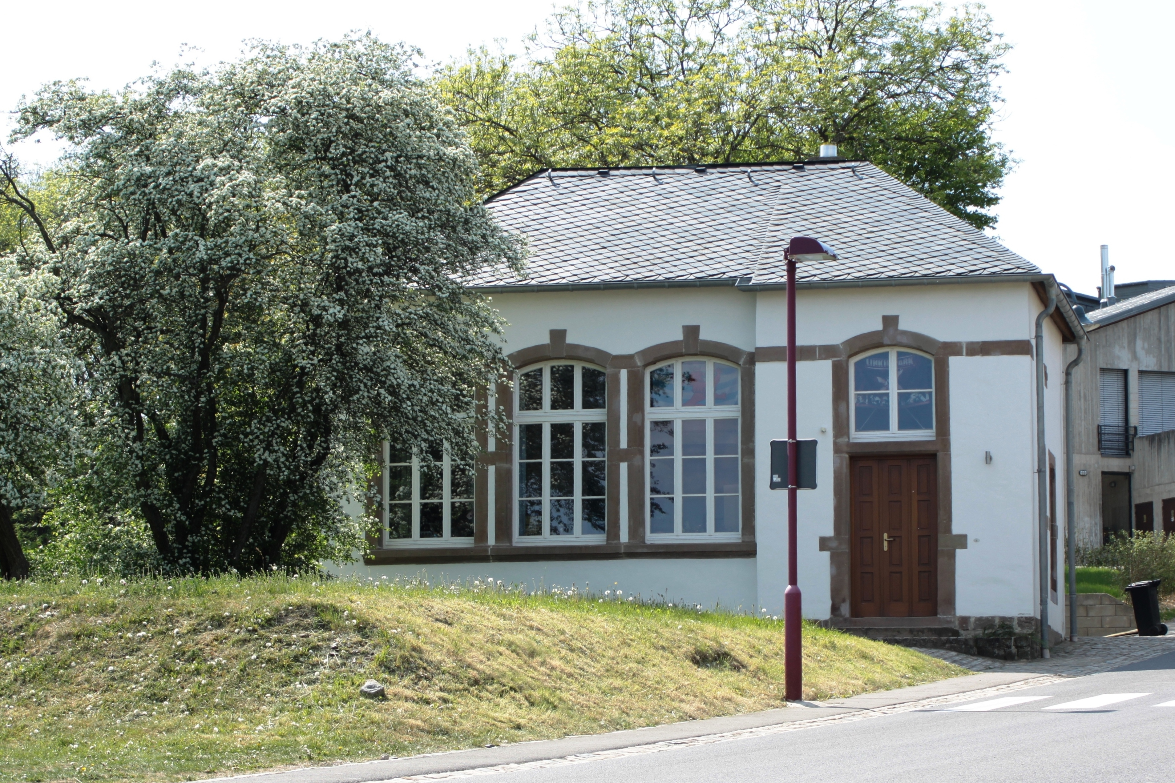 Old school in Putscheid (Luxembourg)